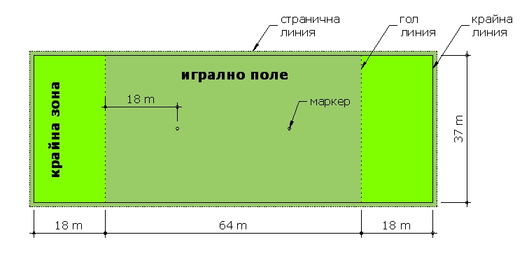 Ultimate Frisbee field